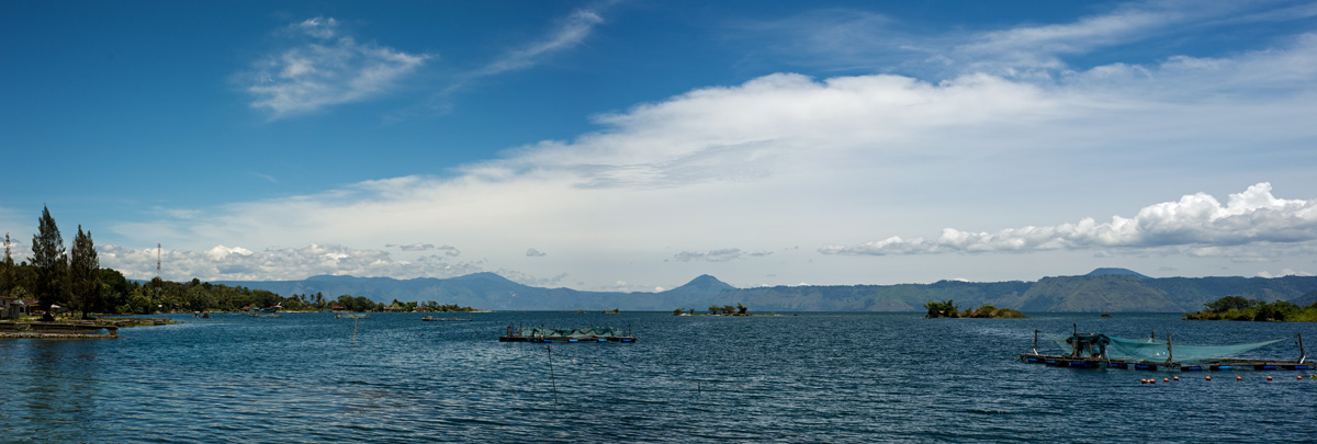 Simanindo lake view, Lake Toba, Sumatra